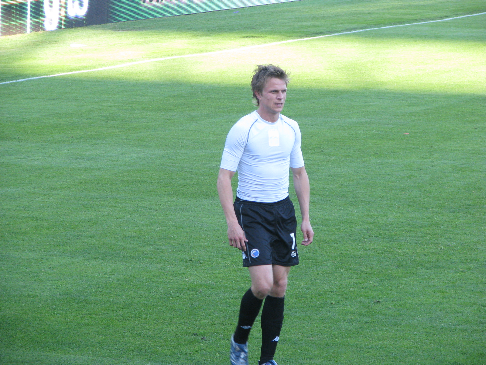 Picture of Jesper Grønkjør from FC Copenhagen.